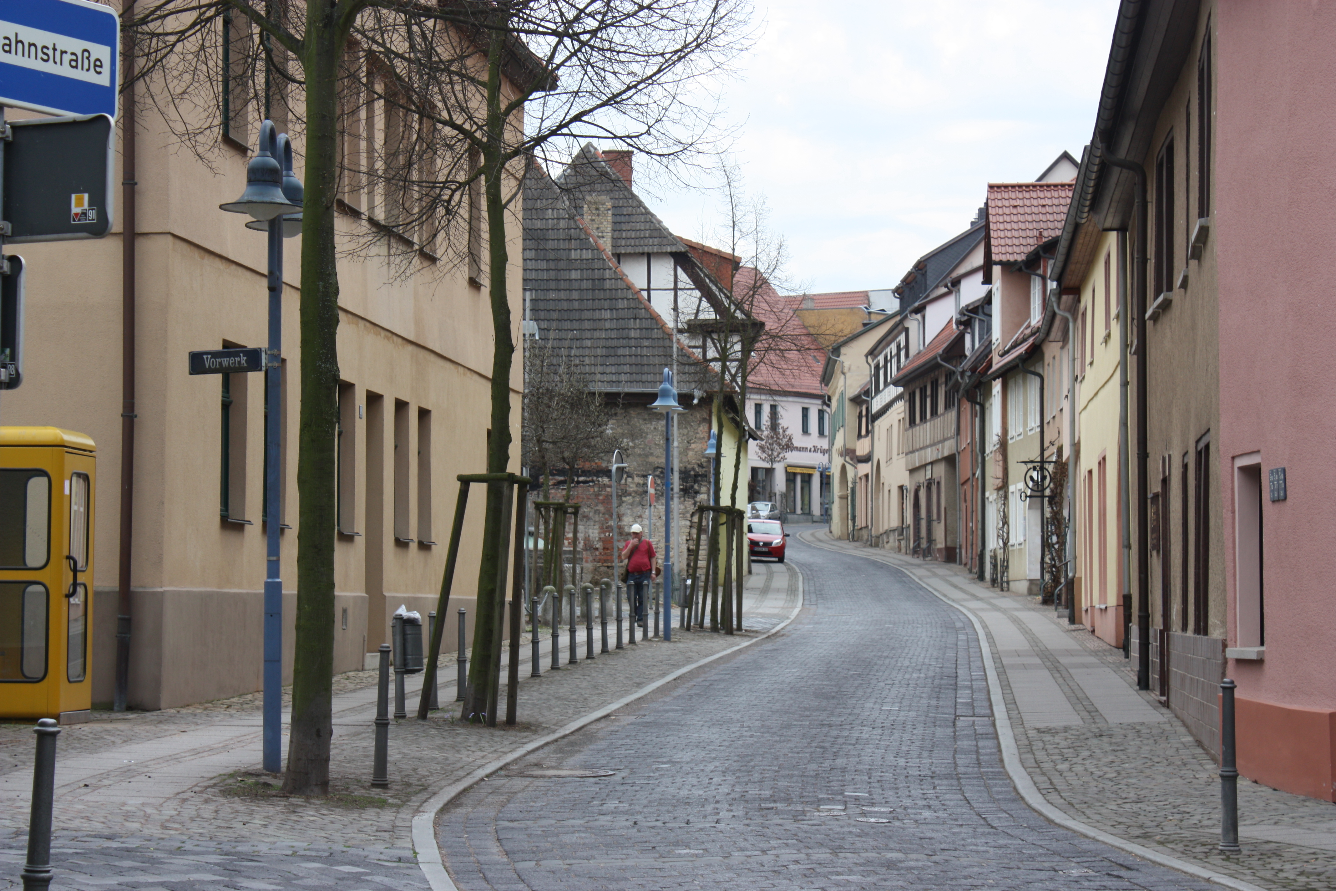 Sangerhausen, the Alte Magdeburger Straße